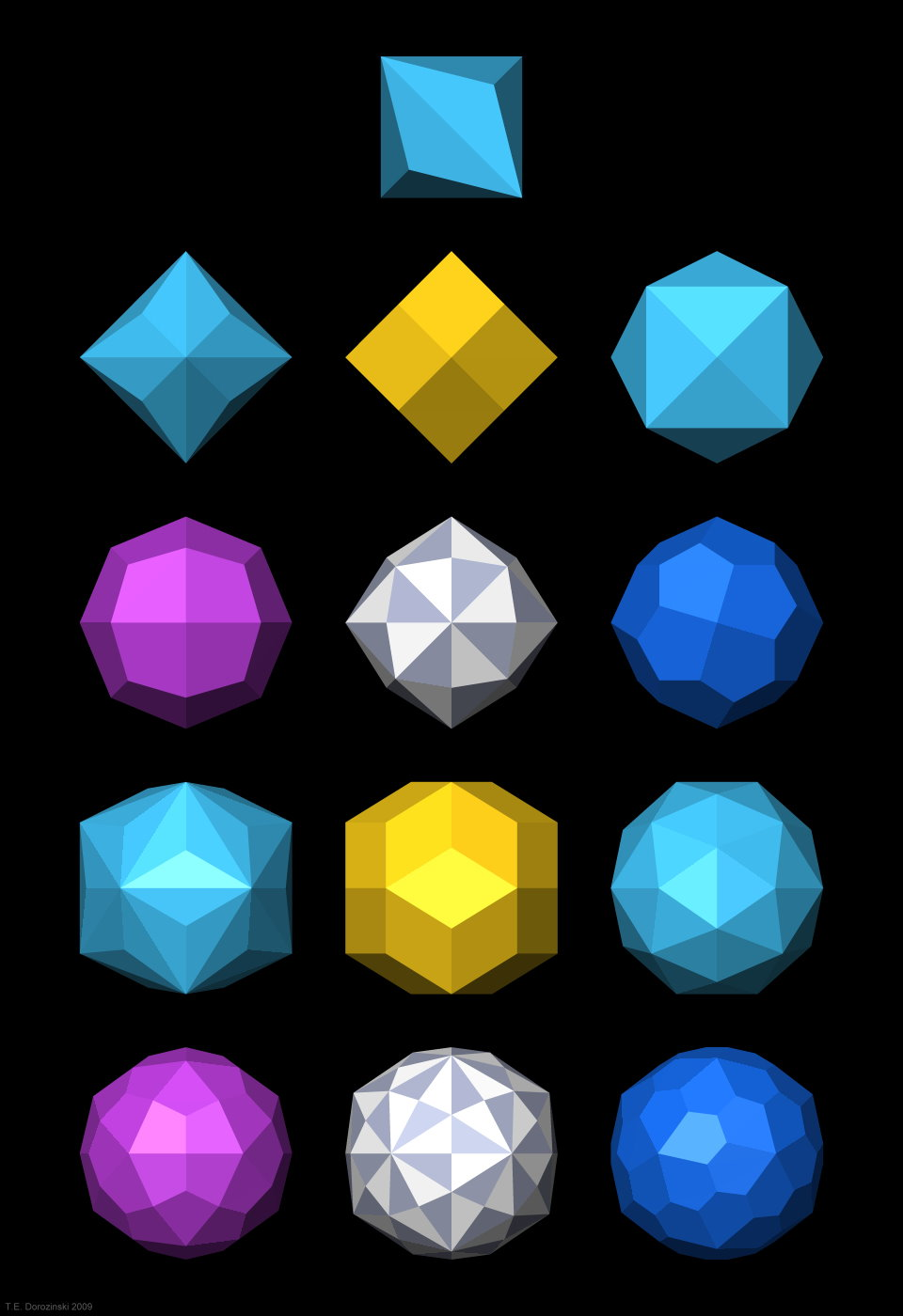 Catalan polyhedra